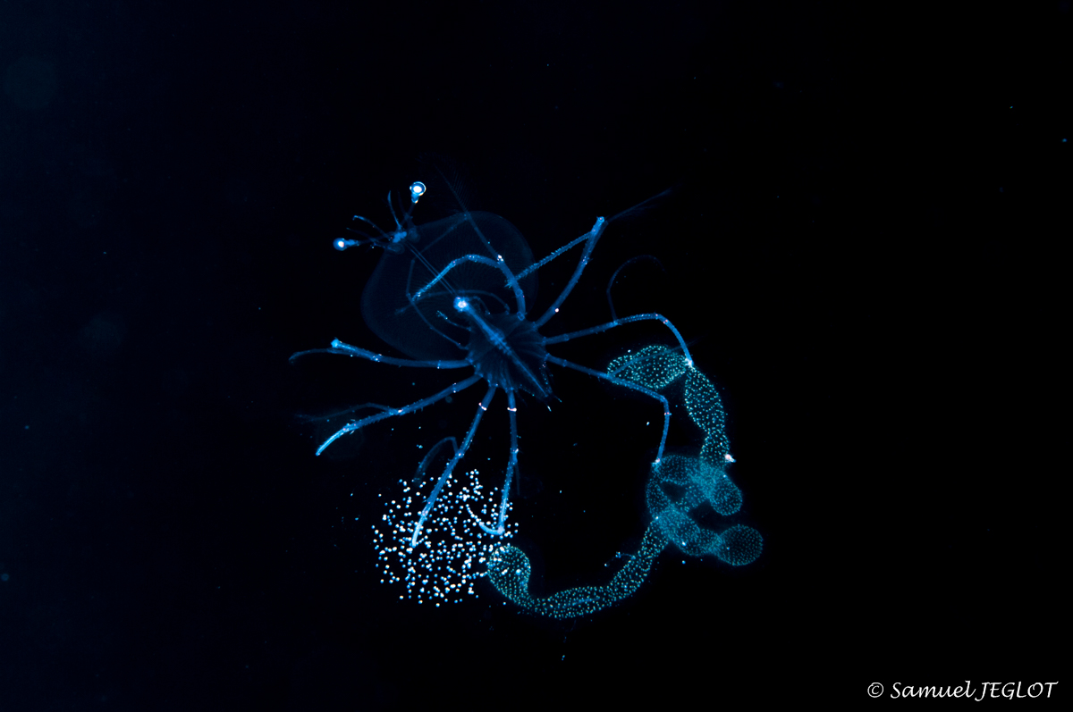 Muitas lagostas